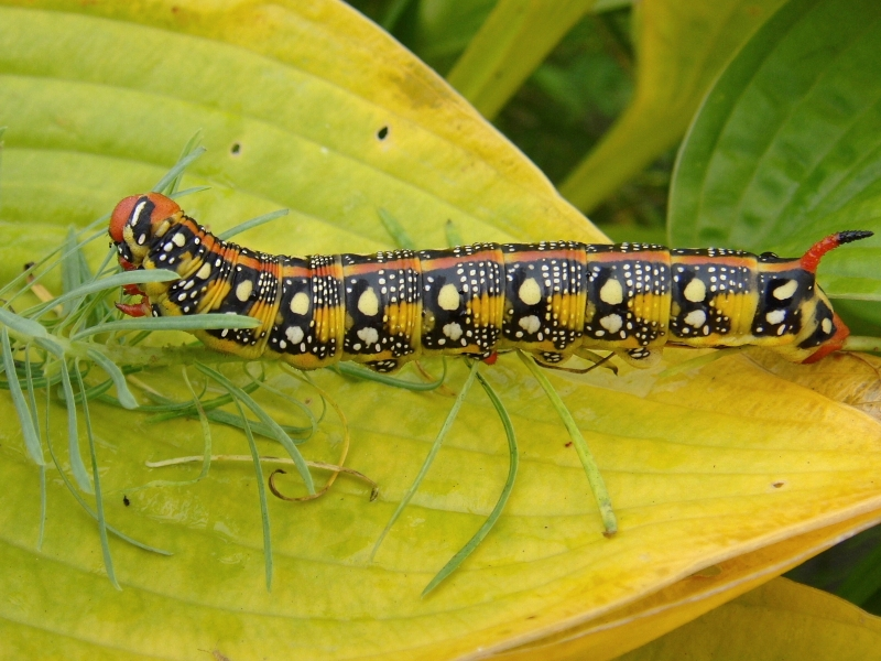 Spurge Hawk-moth (Hyles euphorbiae), caterpillar.